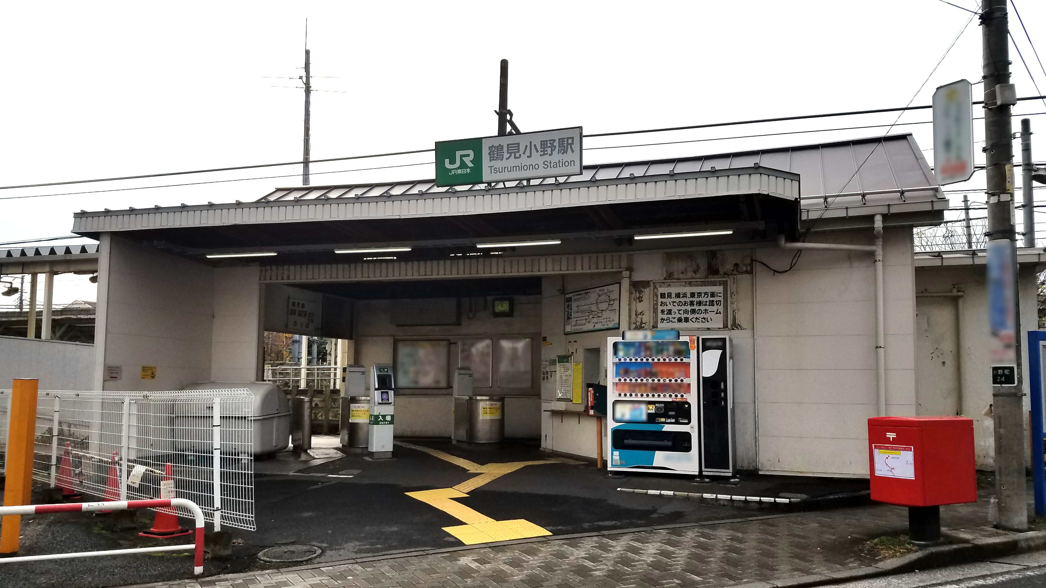 The east-side entrance to Tsurumiono Station on the Tsurumi Line in Tsurumi-ku, Yokohama, Japan